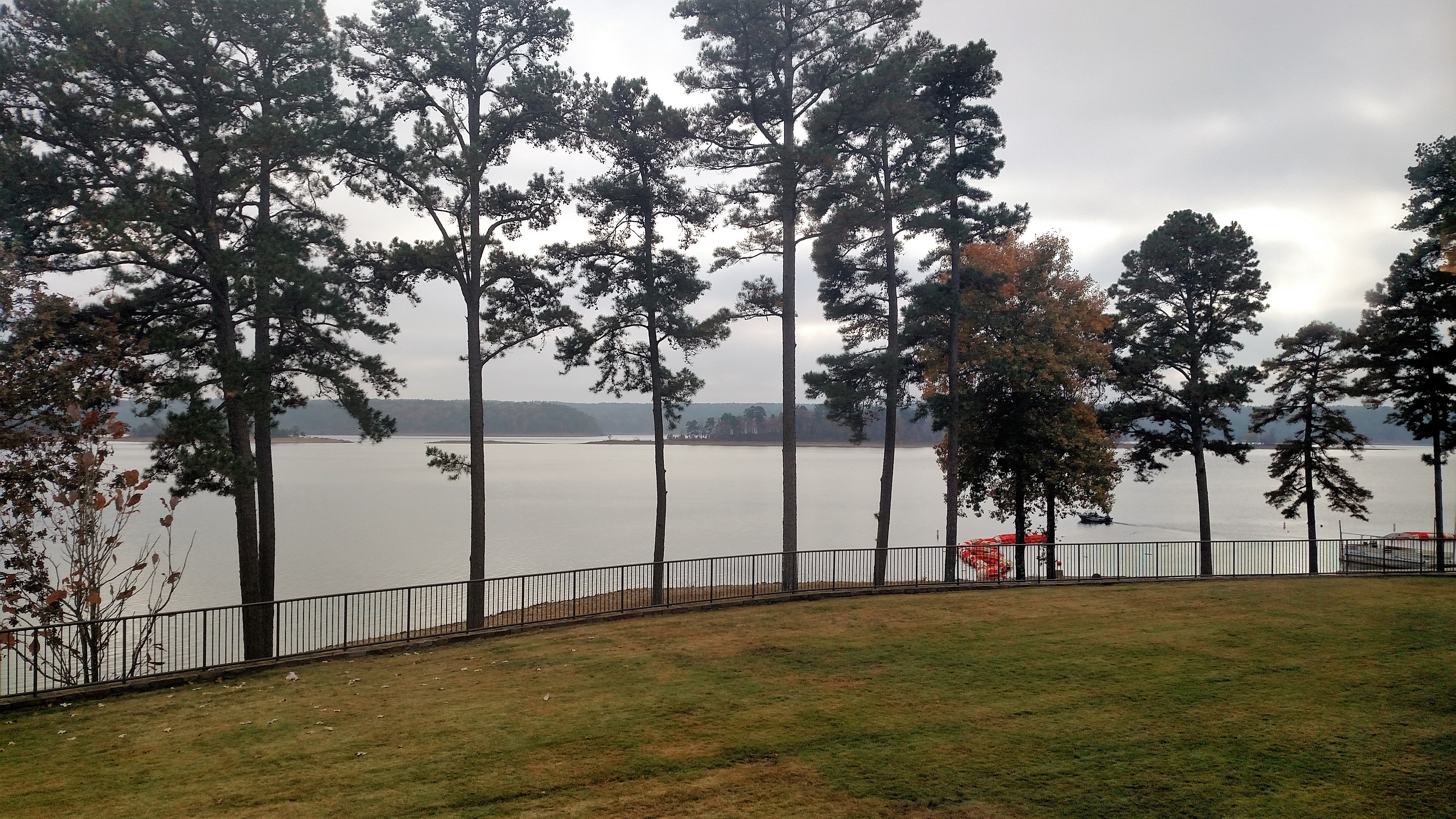 Lake viewed from visitors center